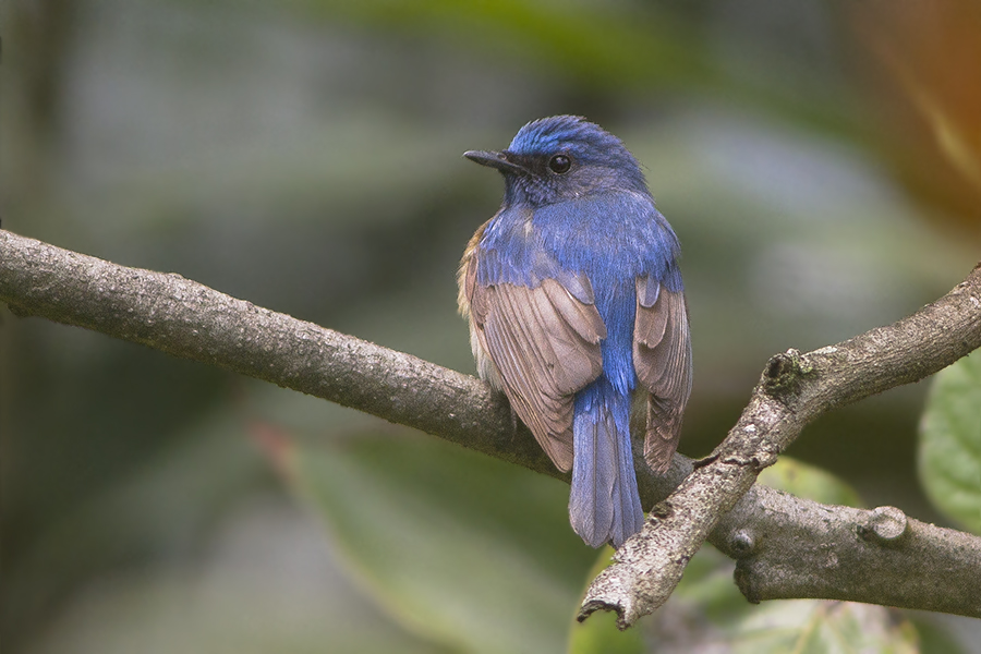 The species Blue-throated Blue Flycatcher had been photographed from Khangchendzonga National Park in West Sikkim, India on 31.03.2016.